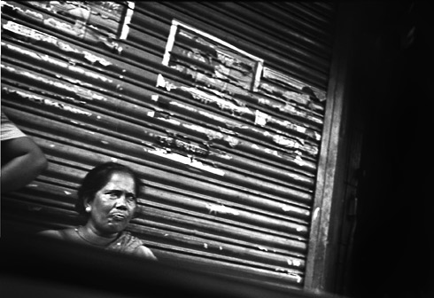 A scene in Sonagachi, Kolkata's red light district, 2005.